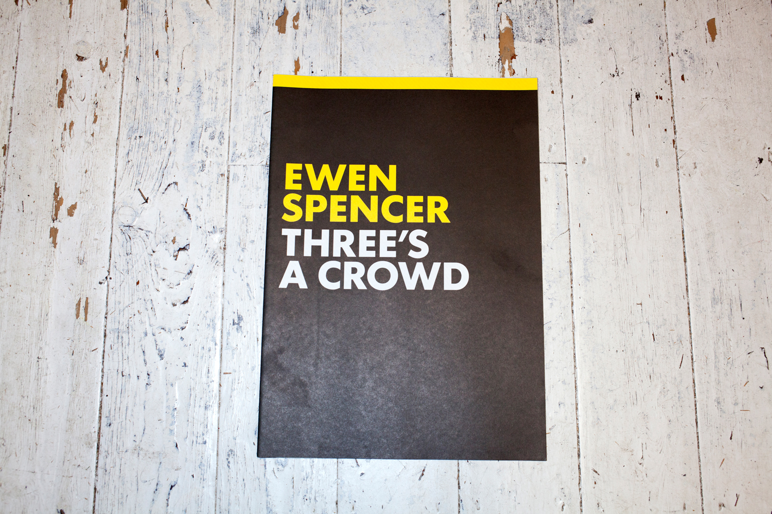 The cover of Ewen Spencer's self published book "Three's a Crowd"